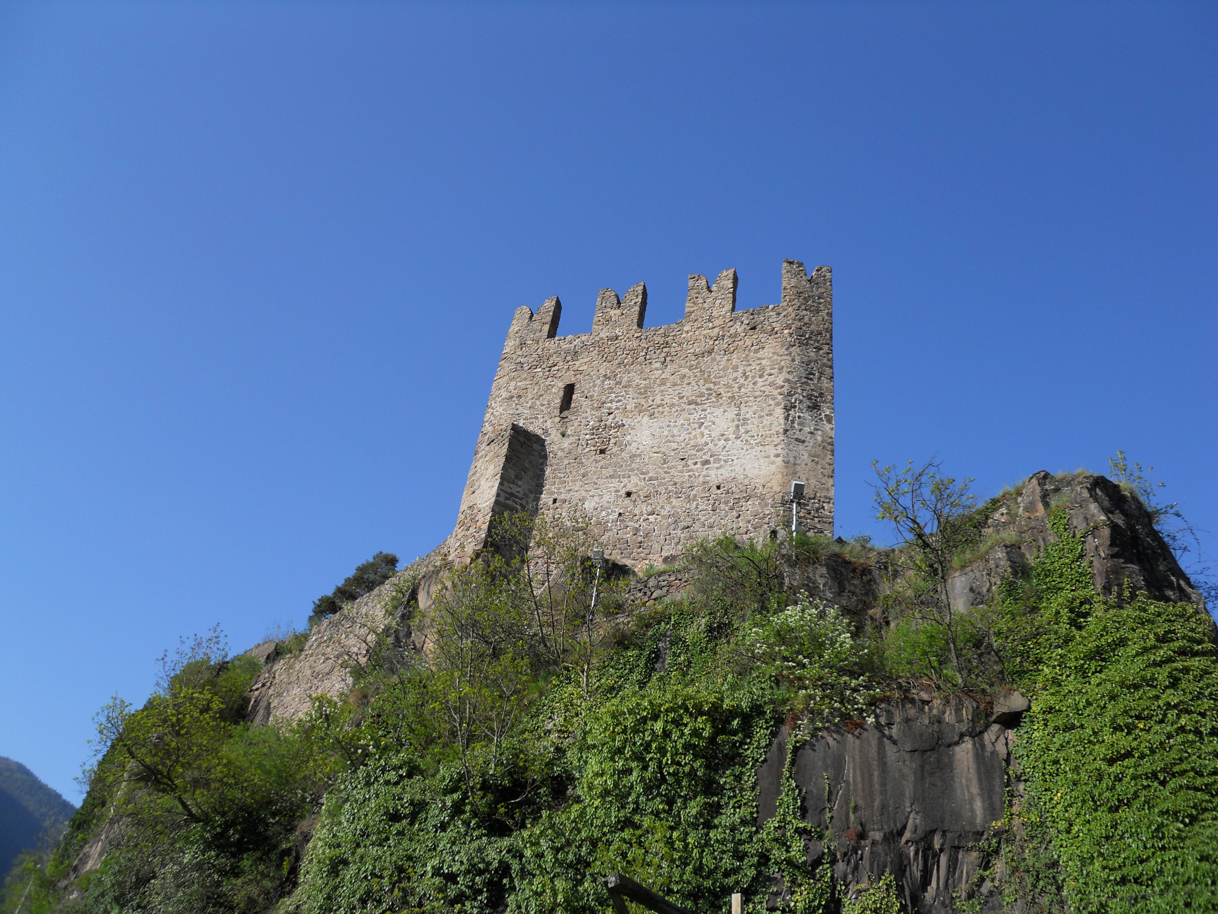 Castle of Segonzano - walls, seen from below